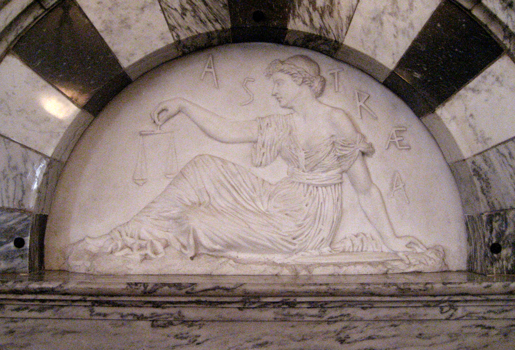 1886 sculpture of Astræa, signed "A," possibly the work of August St. Gaudens. Old Supreme Court Chamber, the Vermont State House, Montpelir, Vermont. August 2007.